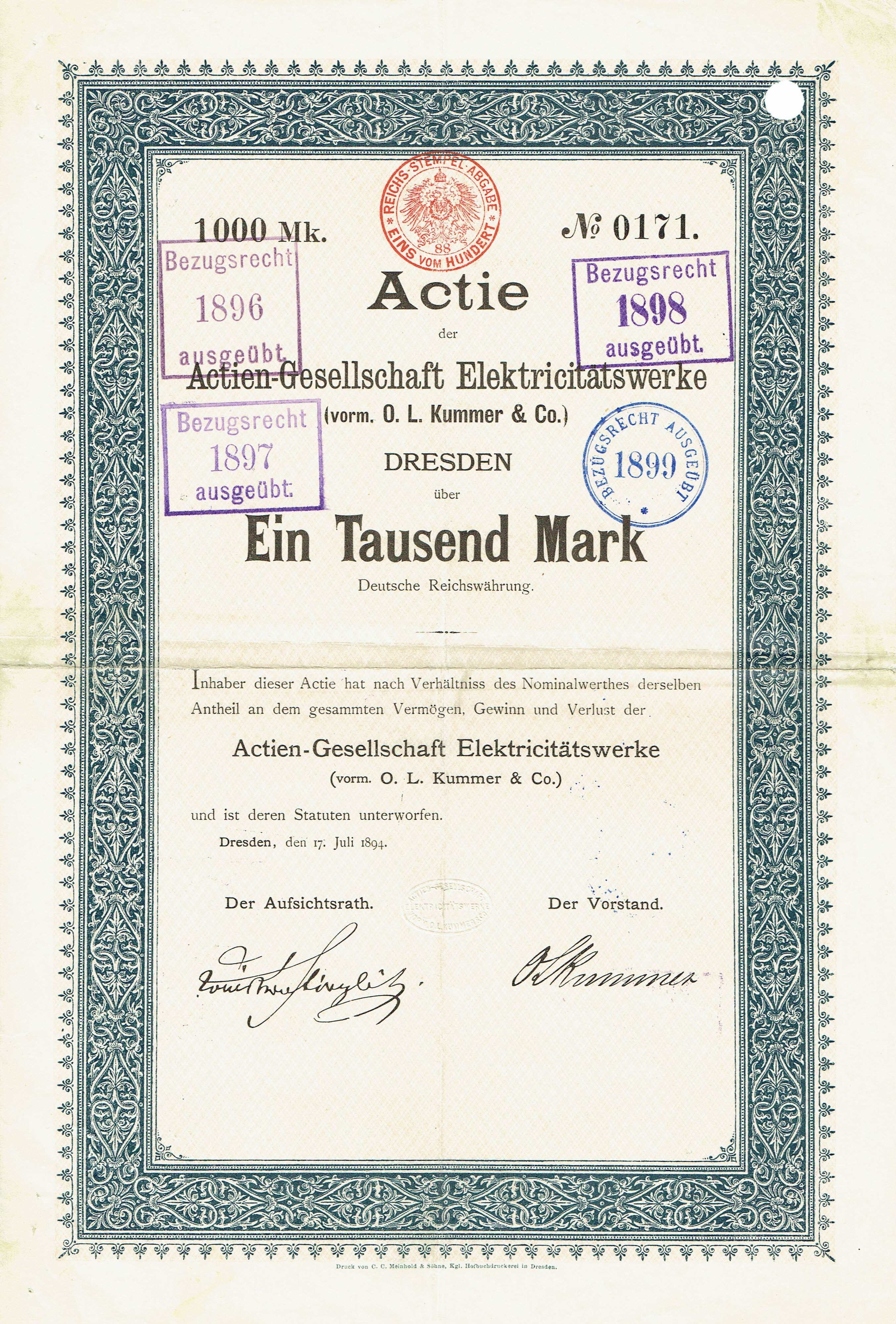 Share of the AG Elektricitätswerke (vorm. O. L. Kummer & Co.), issued 17. July 1894